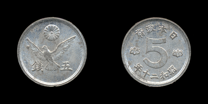 5sen-S20